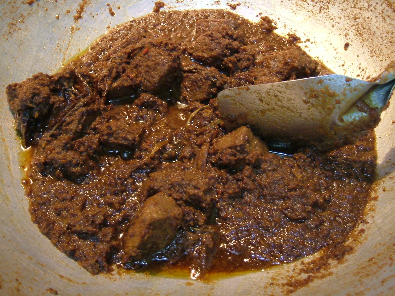 Rendang, beef cooked in spices and coconut milk.